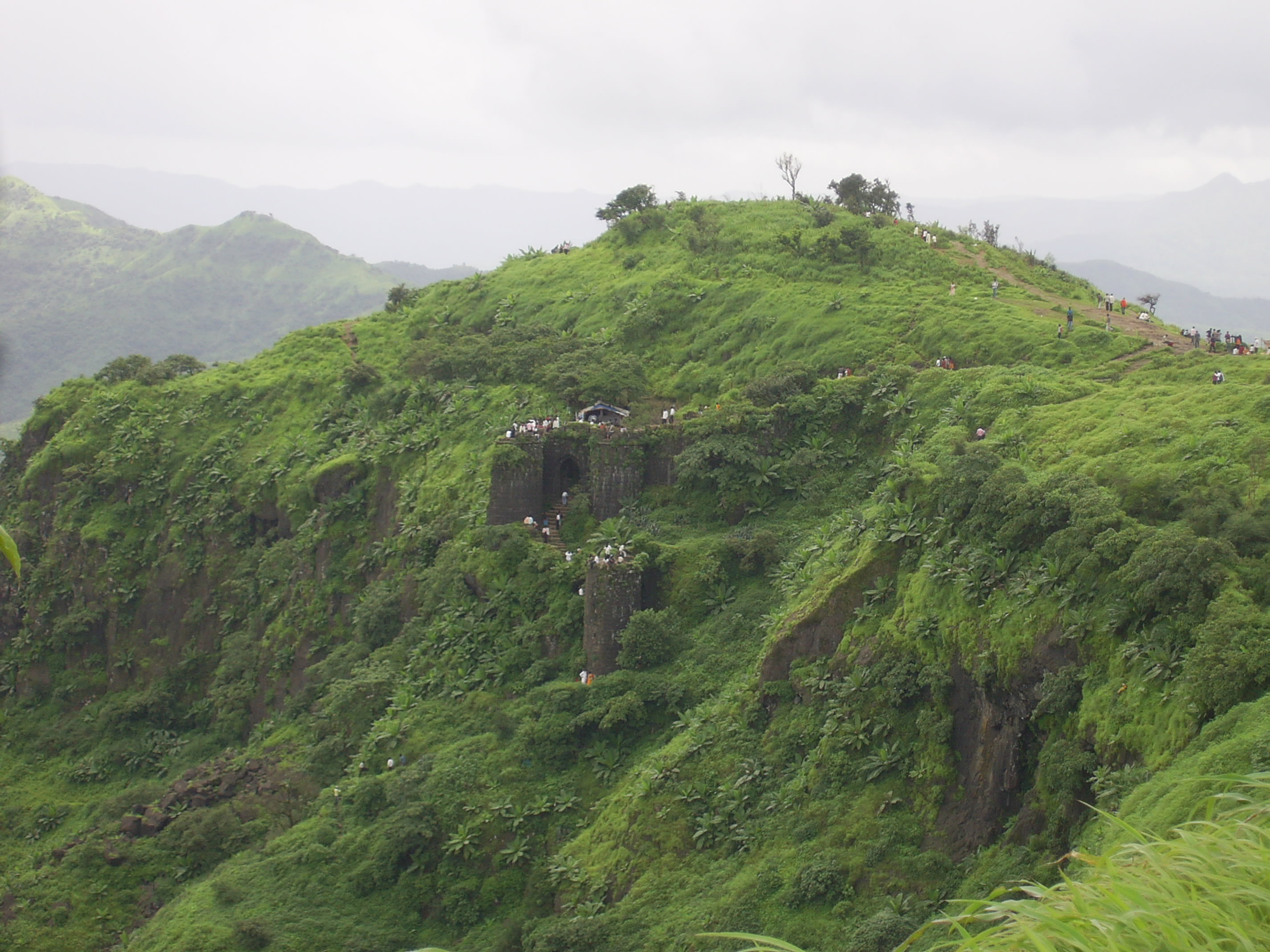 View of Sinhagad Fort near Pune. The fort is lush green in Monsoon and people from nearby areas visit to enjoy the scenic beauty.